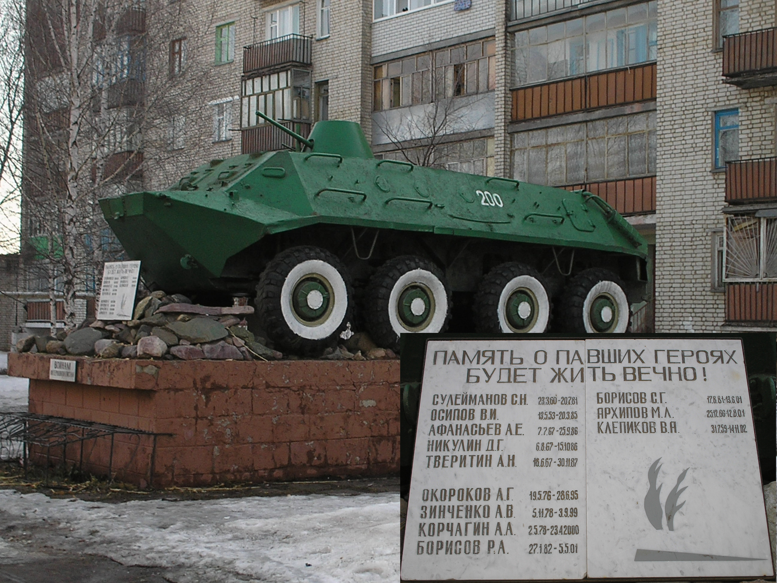 Rtishchevo. Monument to soldiers-internationalists